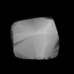 3D convex shape model of 643 Scheherezade, computed using light curve inversion techniques. J. Hanuš, J. Ďurech, M. Brož, B. D. Warner (June 2011). "A study of asteroid pole-latitude distribution based on an extended set of shape models derived by the lightcurve inversion method". Astronomy and Astrophysics 530: A134. ISSN 0004-6361. arXiv